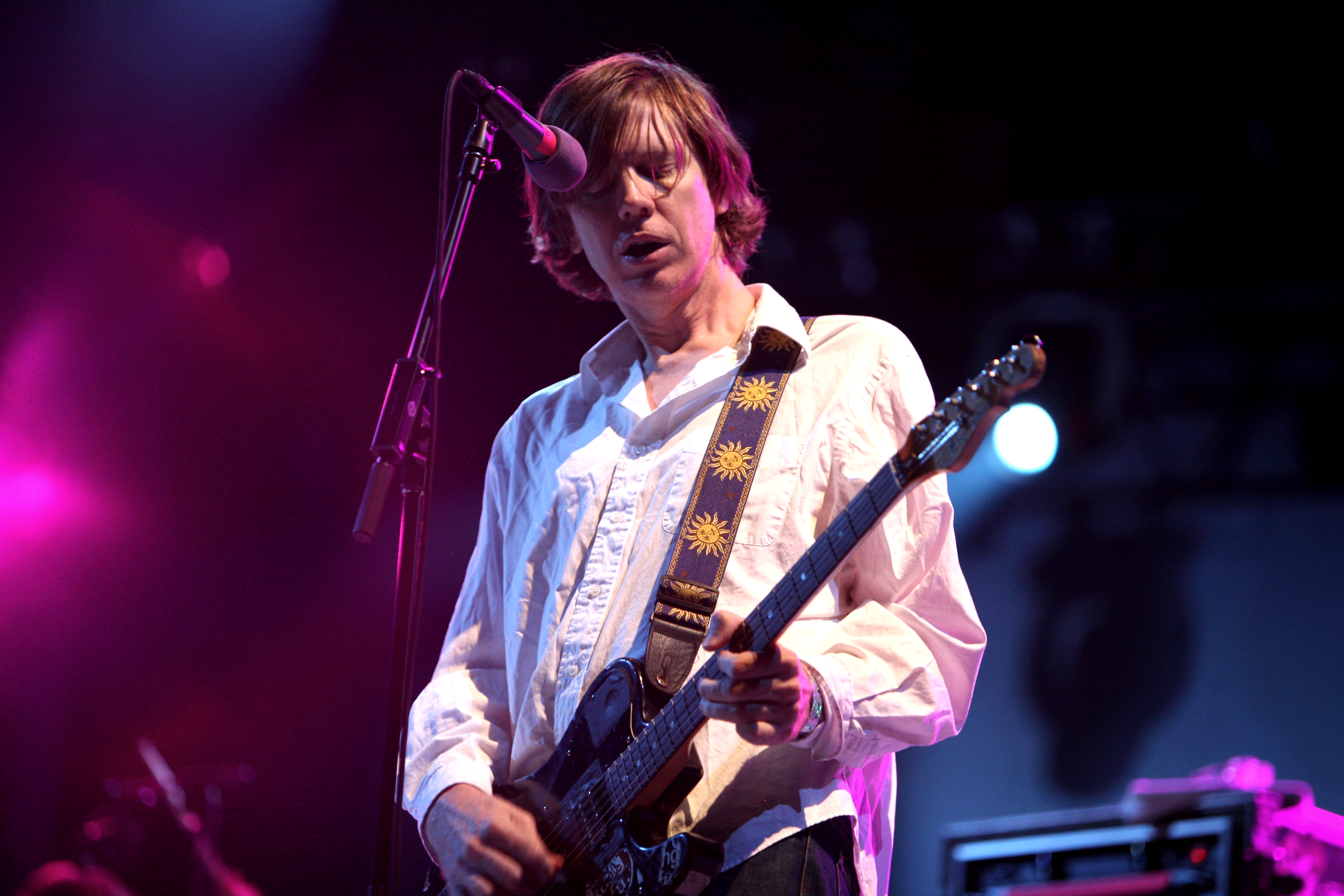 Thurston Moore (Sonic Youth) at Rock en Seine Route du Rock, August 2007